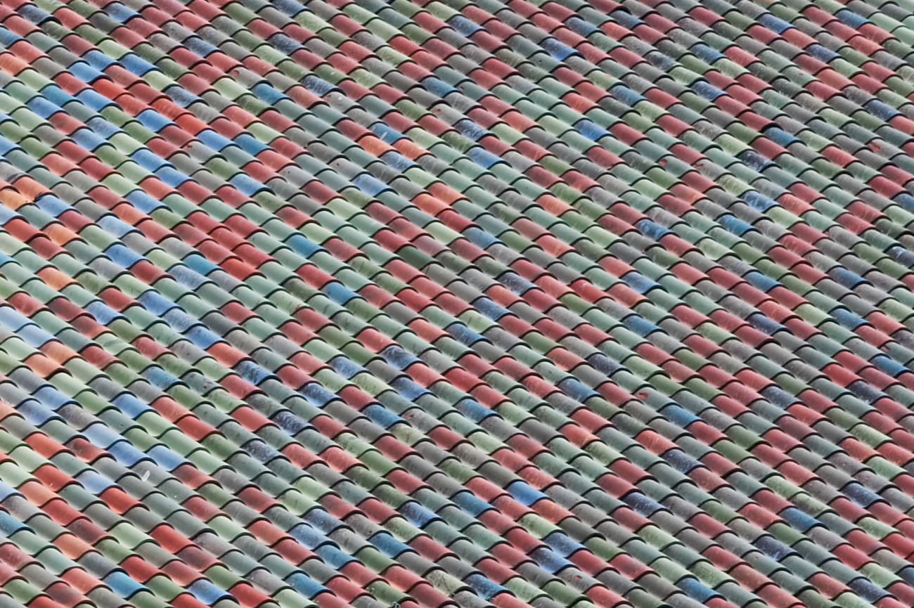 Colored roof tiles on top of the Cathedral of St. John in Milwaukee, Wisconsin